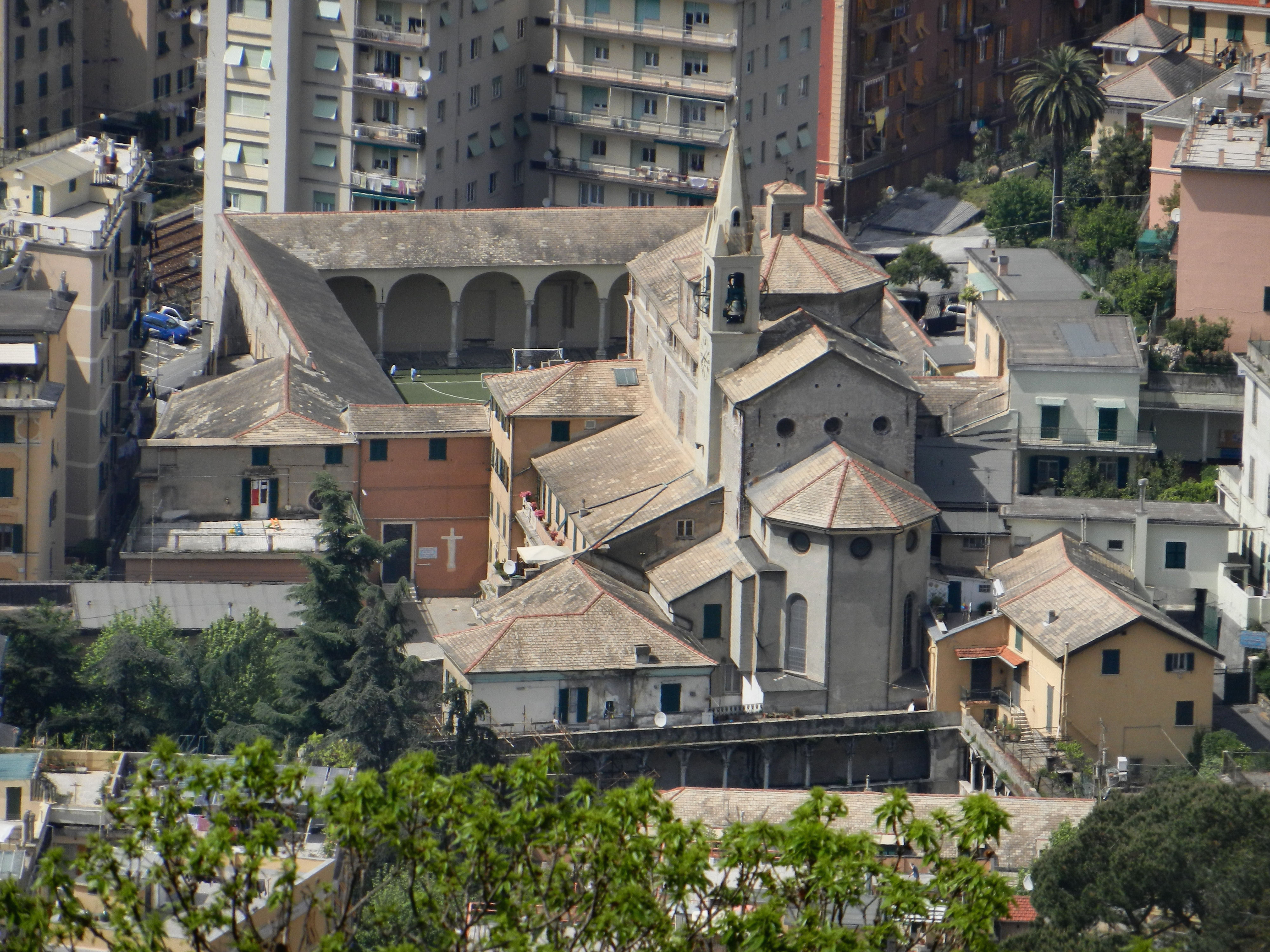 Genoa, Italy, quarter of Rivarolo, church and monastery of San Bartolomeo della Certosa